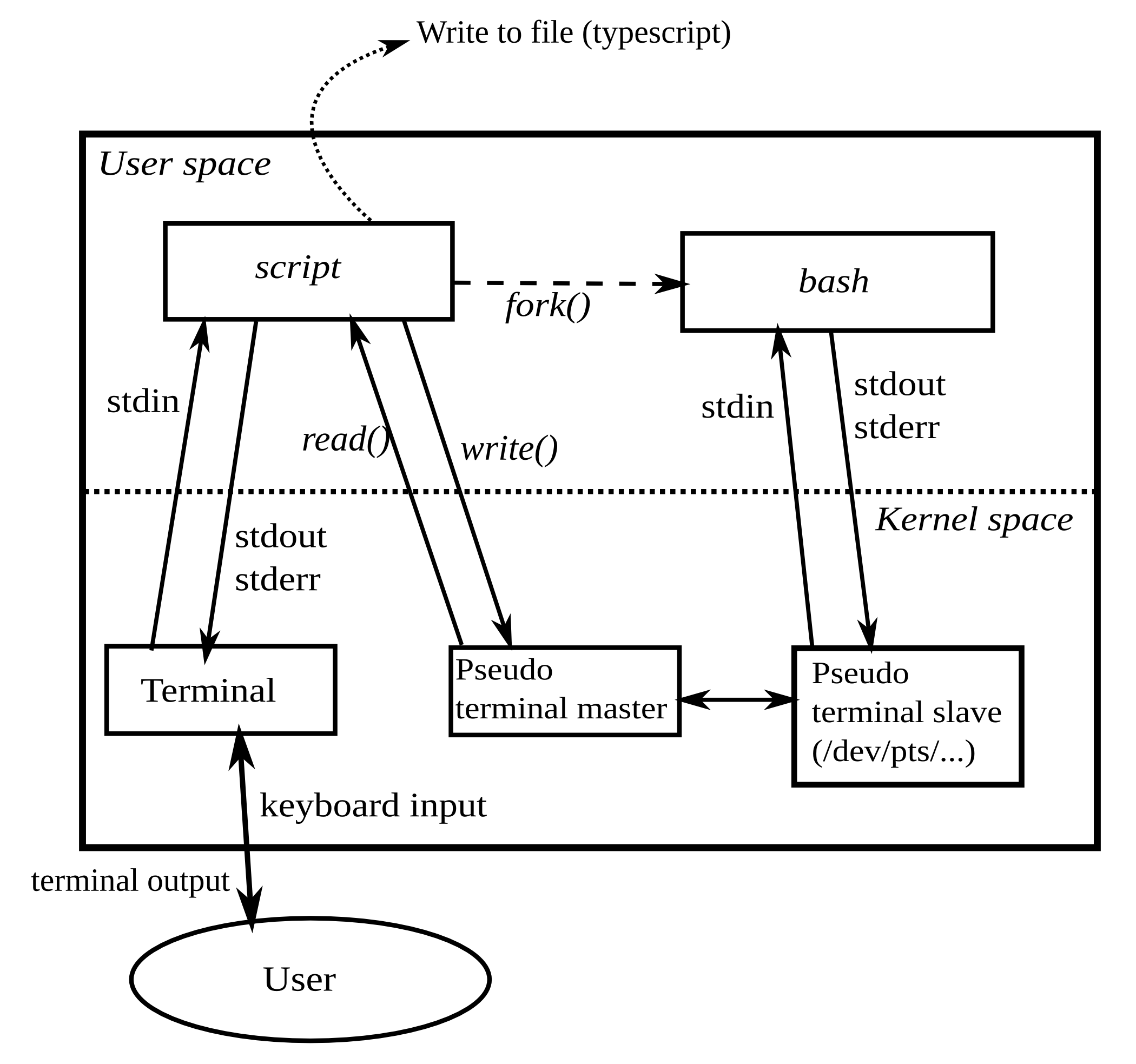 Diagram of script(1) using Unix98 pseudo terminals (e.g. on Linux)